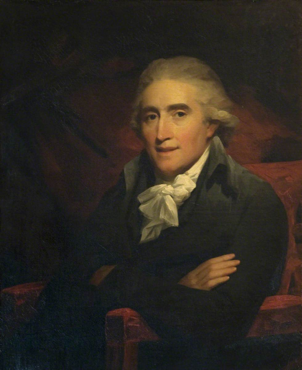 The Hon Henry Erskine (1746-1817), 2nd son of Henry David, 10th Earl of Buchan, Lord Advocate, half-length, seated, in a dark coat, in the original frame.